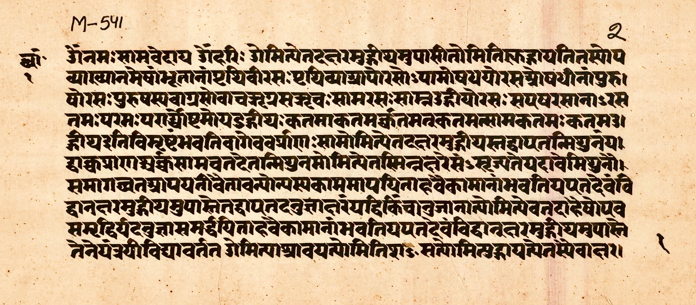 The early Upanishads (Upanisad, Upanisat) are scriptures of Hinduism. Variously dated by scholars to have been composed between 900 BCE to about 200 BCE, these texts are in Sanskrit language and embedded within a layer of the Vedas. They contain a mixture of philosophy and mystical speculations, many set in the form of dialogues or pedagogic style. Their central teachings include the concepts of Atman (soul, self) and Brahman (metaphysical reality). The above image is from a Chandogya Upanishad manuscript. It is the second oldest known Upanishads, dated to between 900 to 600 BCE (pre-Buddhist era). It shows verses 1.1.1 through 1.1.9 of the text (the last verse 1.1.9 is incomplete, continues on the next page). This is the first page of the Upanishad, and the Om symbol is written in one of the early styles found in pre-11th century CE Sanskrit texts and inscriptions. These manuscripts are preserved at the Lalchand Research Library, Ancient Indian Manuscript Collection, DAV College Digital Library Initiative, Chandigarh India, in association with SP Lohia and Indorama Charitable Trust. The texts are over 2000 years old, the re-copying into this particular manuscript is dated to an 1849 CE (1906 V.S. or Vikram Samvat) reproduction. The manuscript shows decay and damage on the sides and its edges. Language: Sanskrit Script: Devanagari Script style: pre-14th century (Northern / Western) The photo above is of a 2D artwork of a text that is over 2,500 years old, from a manuscript that was produced decades before 1923. Therefore Wikimedia Commons PD-Art licensing guidelines apply. Any rights I have as a photographer is herewith donated to wikimedia commons under CC 4.0 license.